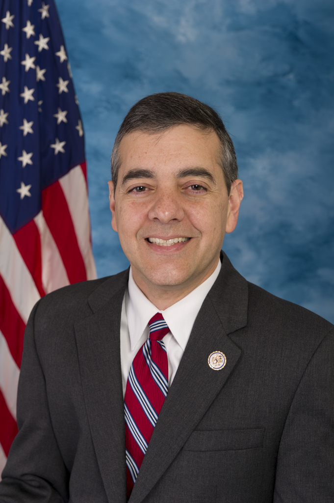 Official portrait of US Rep David Rivera